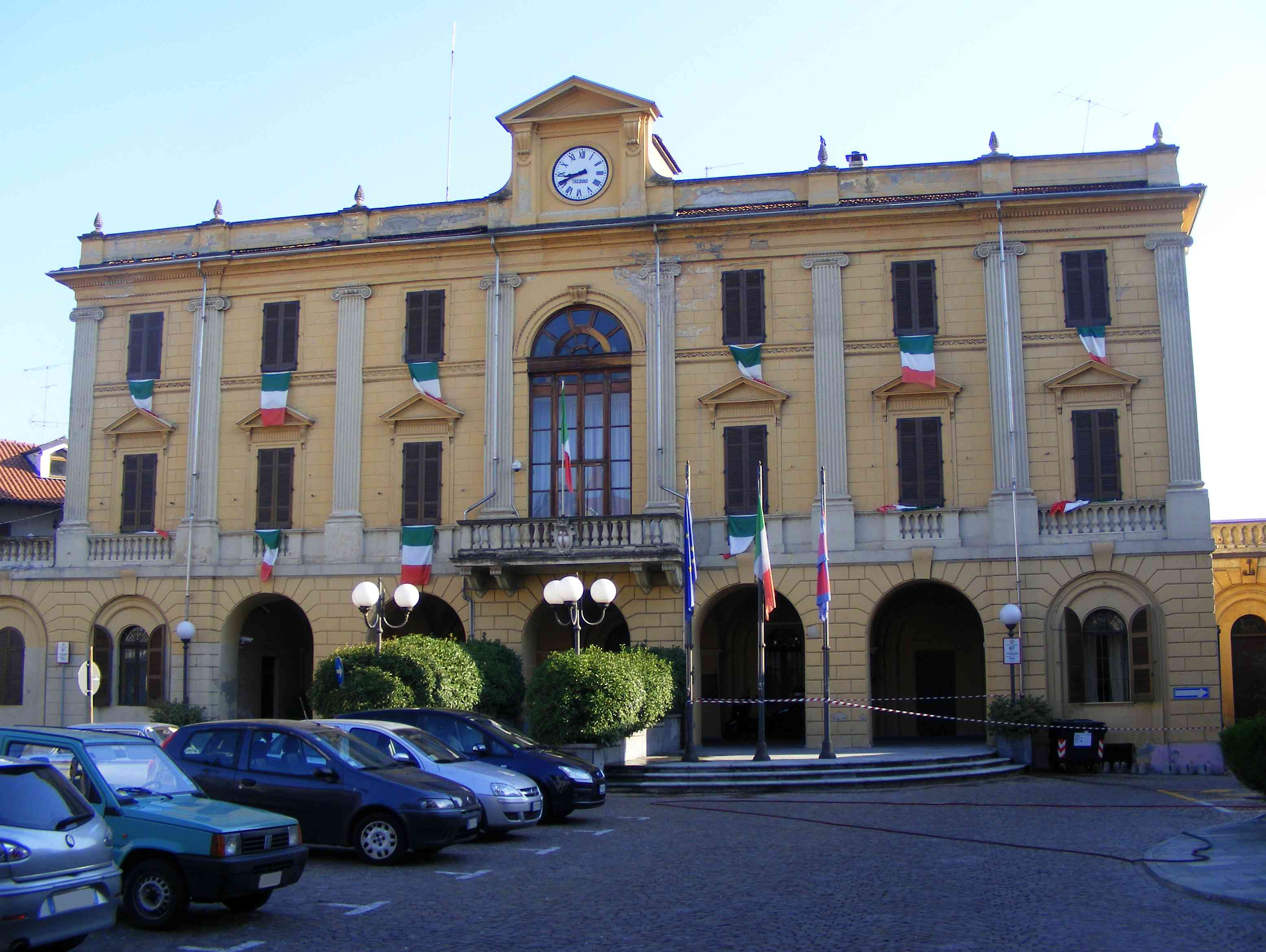 Santhià (VC, Italy): town hall